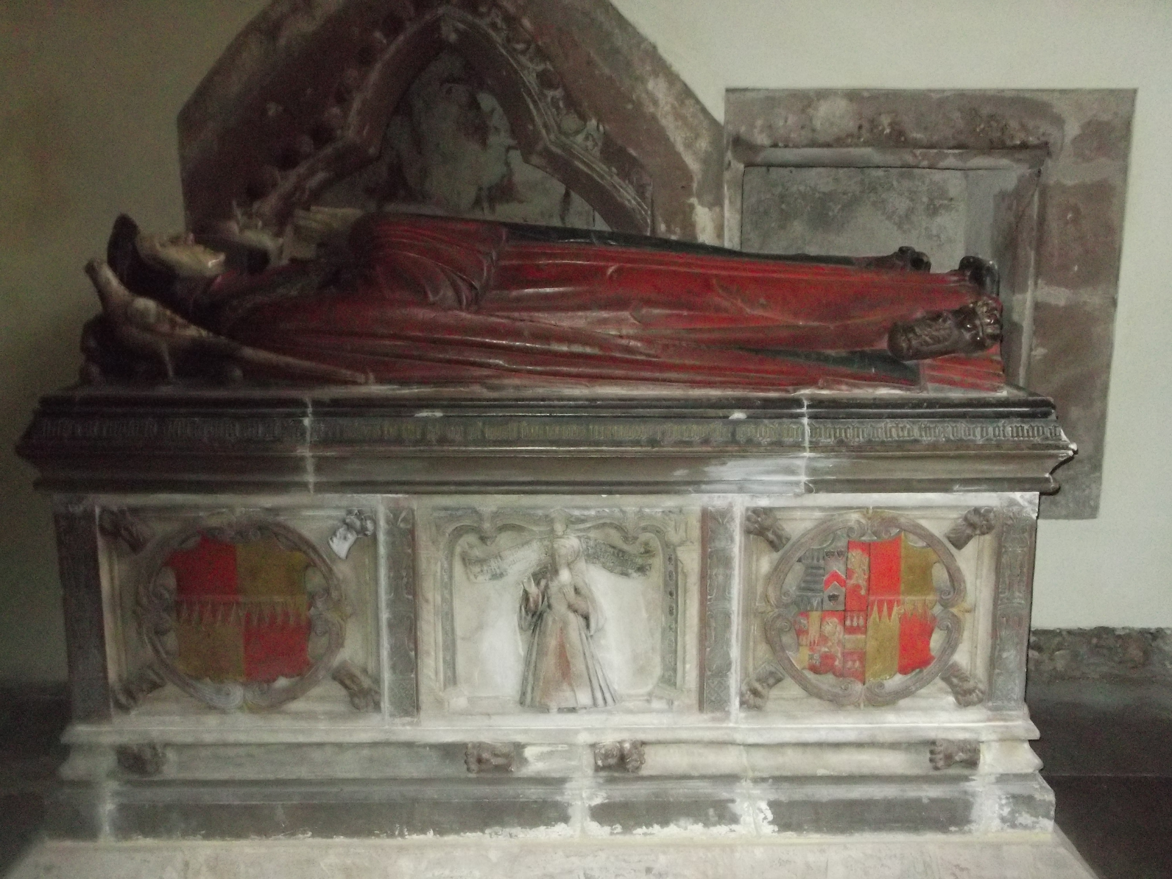 Tomb of Thomas Bromley, appointed Chief Justice of the Queen's Bench by Mary, 1553, buried Wroxeter, 1555, and his wife, Isabel Lyster. St Andrews parish church, Wroxeter, Shropshire.